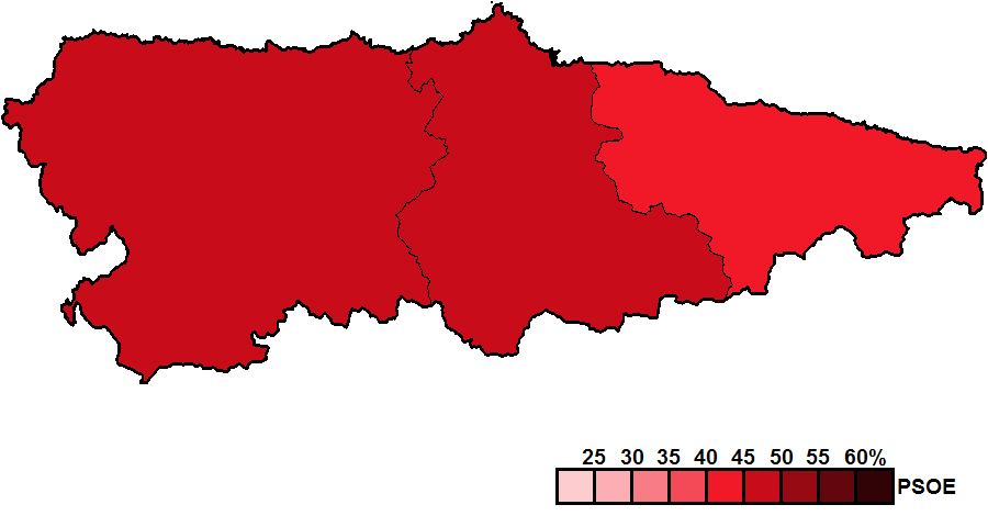 District results for the 1999 Asturian regional election.